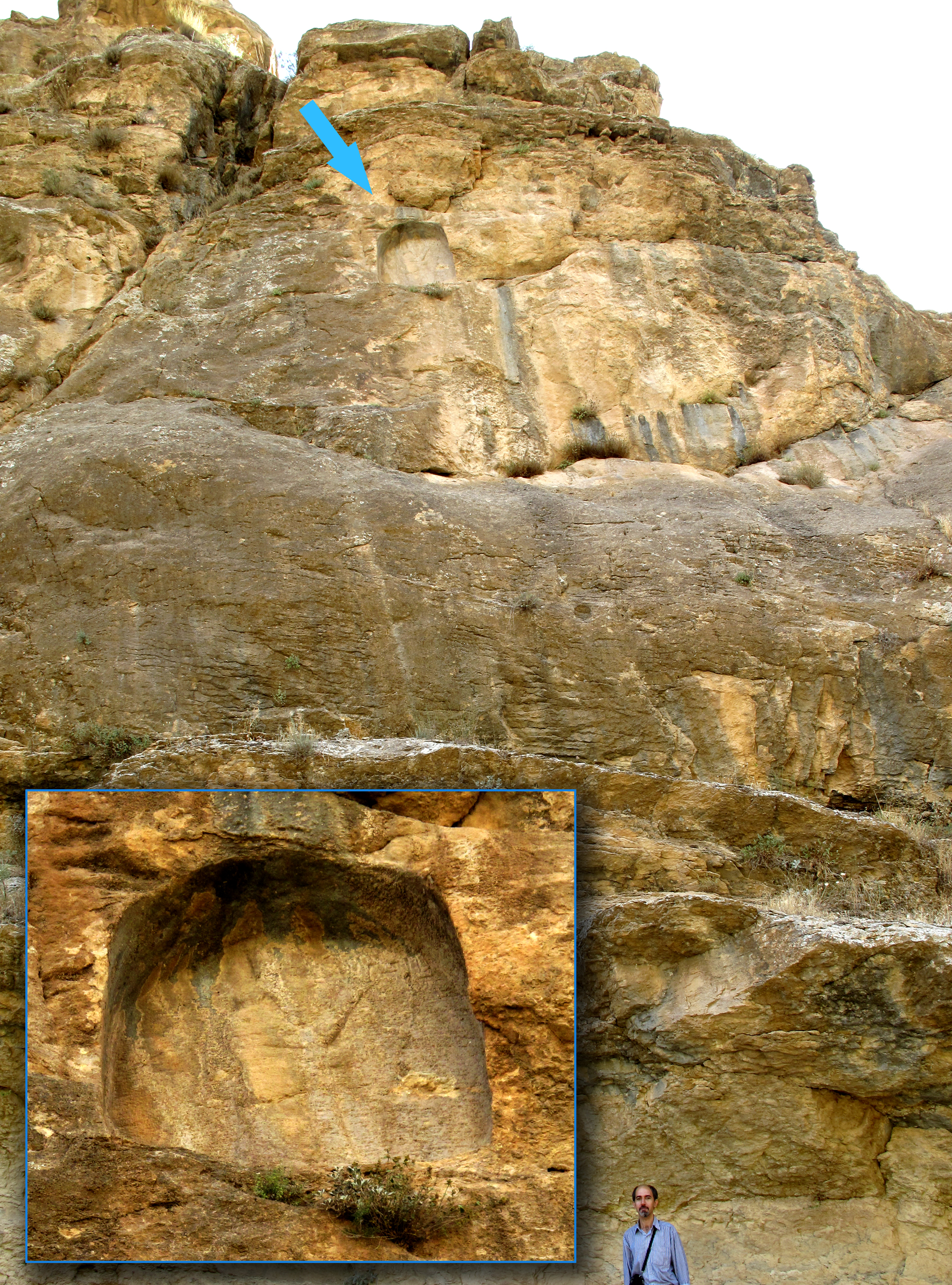 The Inscription of Sargon II at Tang-i Var pass near the village of Tang-i Var , in the district of Sanandaj, Kurdistan, Iran